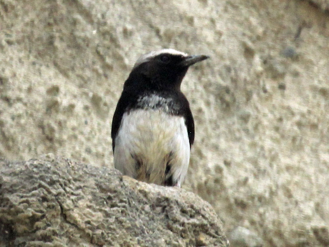 Mourning Wheatear (Oenanthe lugubris) - Fish Eagle Lodge, Knysna Lagoon, Kenya. This is subspecies Oenanthe l. schalowi and is known as Schalow's Wheatear.